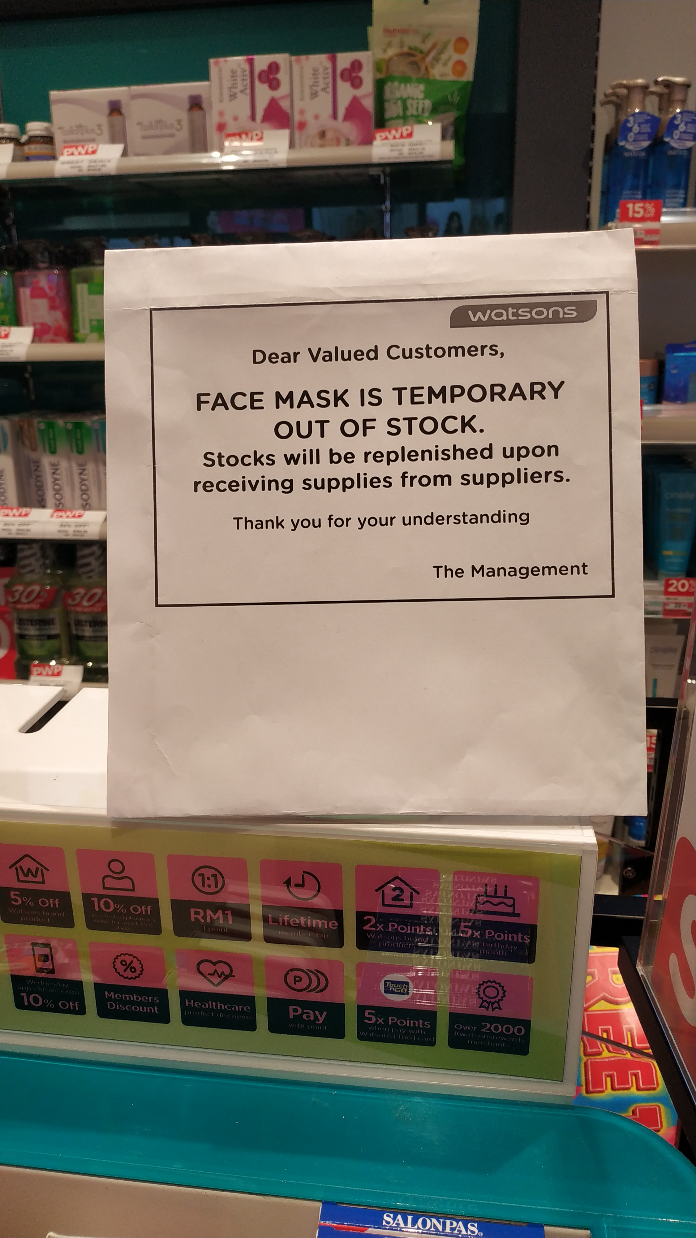 Masks out of stock in Watsons Taman Wahyu, Kuala Lumpur